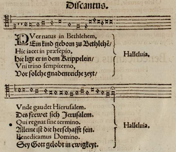 Descant part of Puer natus from Lucas Lossius: Psalmodia, hoc est cantica sacra veteris ecclesiae, Nürnberg 1553, page XXVIII